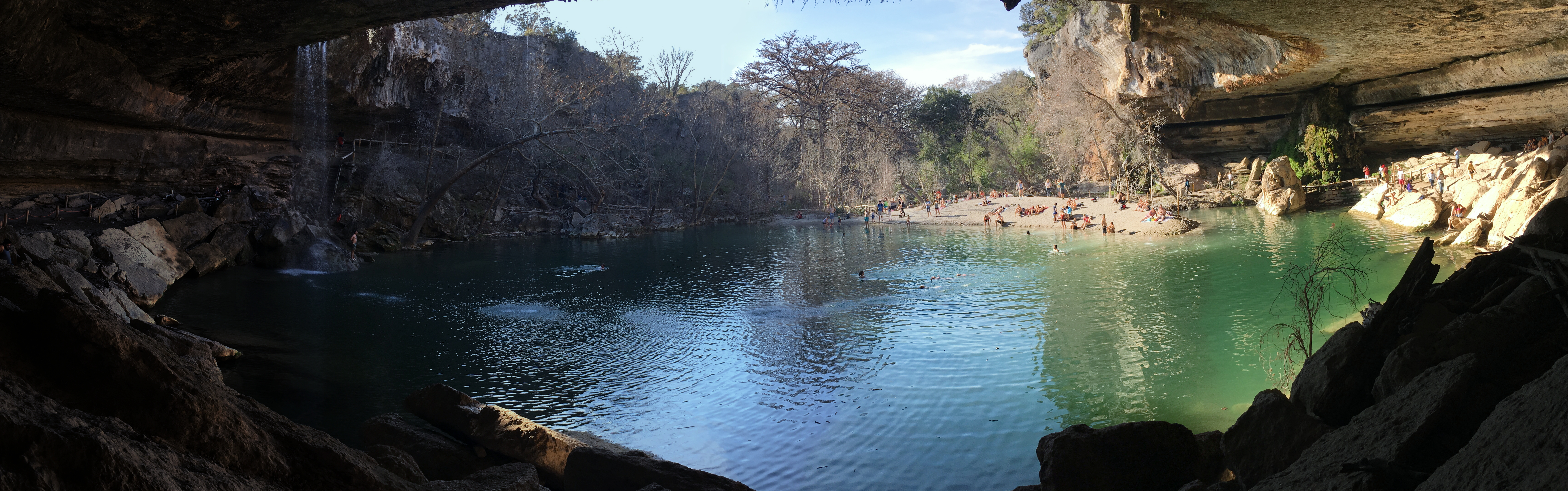 Hamilton Pool Preserve in Travis County, Texas